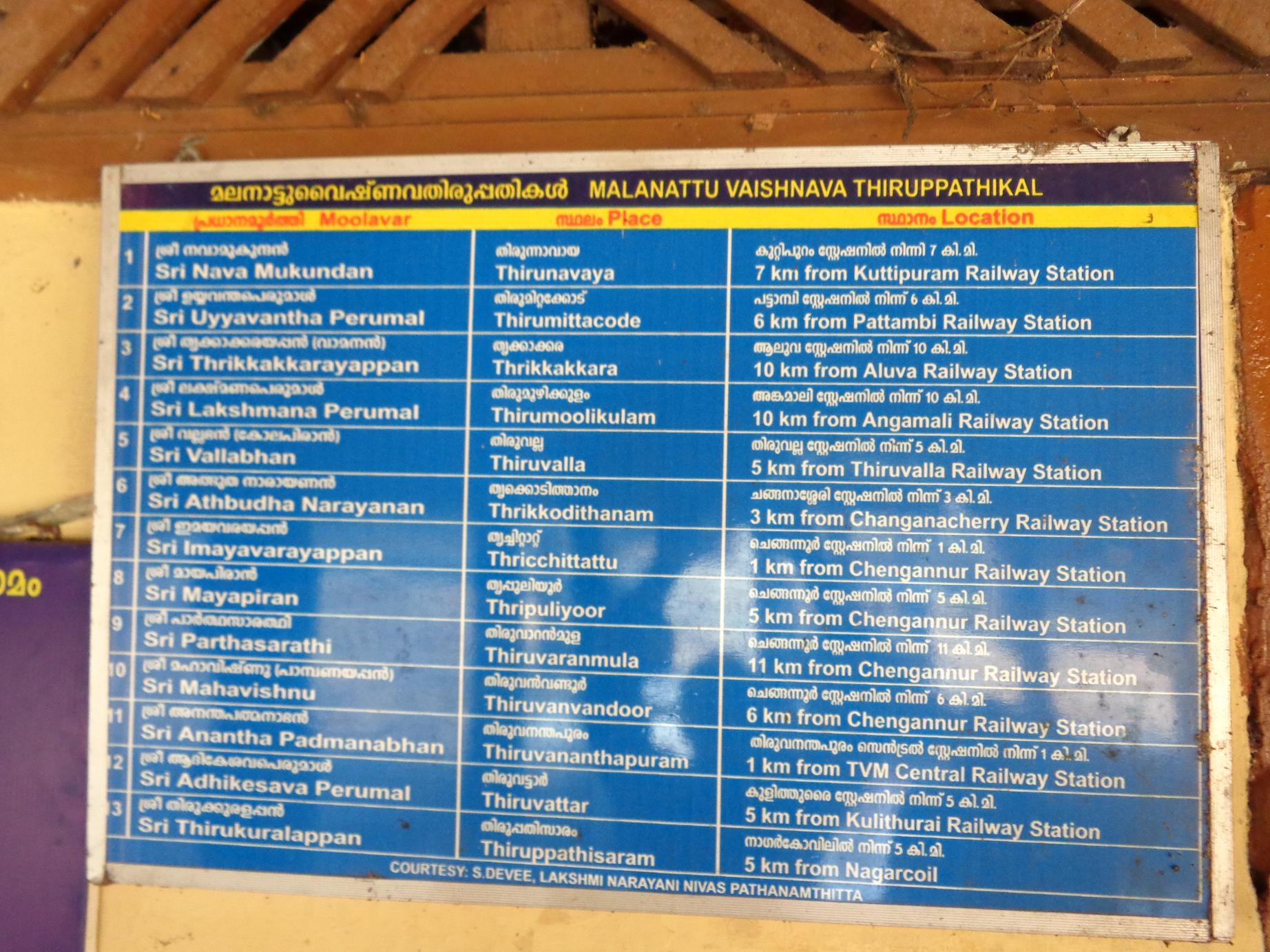 the list of 13 thirupathi temples of kerala (given at trichittat temple , chengannoor, kerala